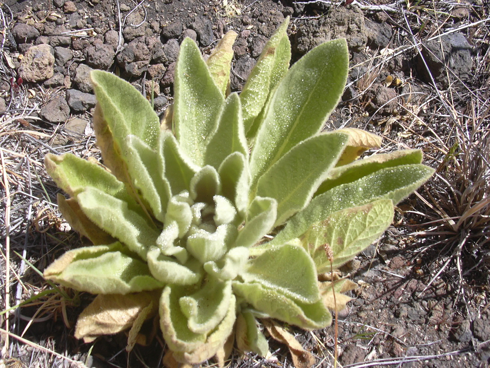 Verbascum thapsus (habit). Location: Hawaii, Puu Kole